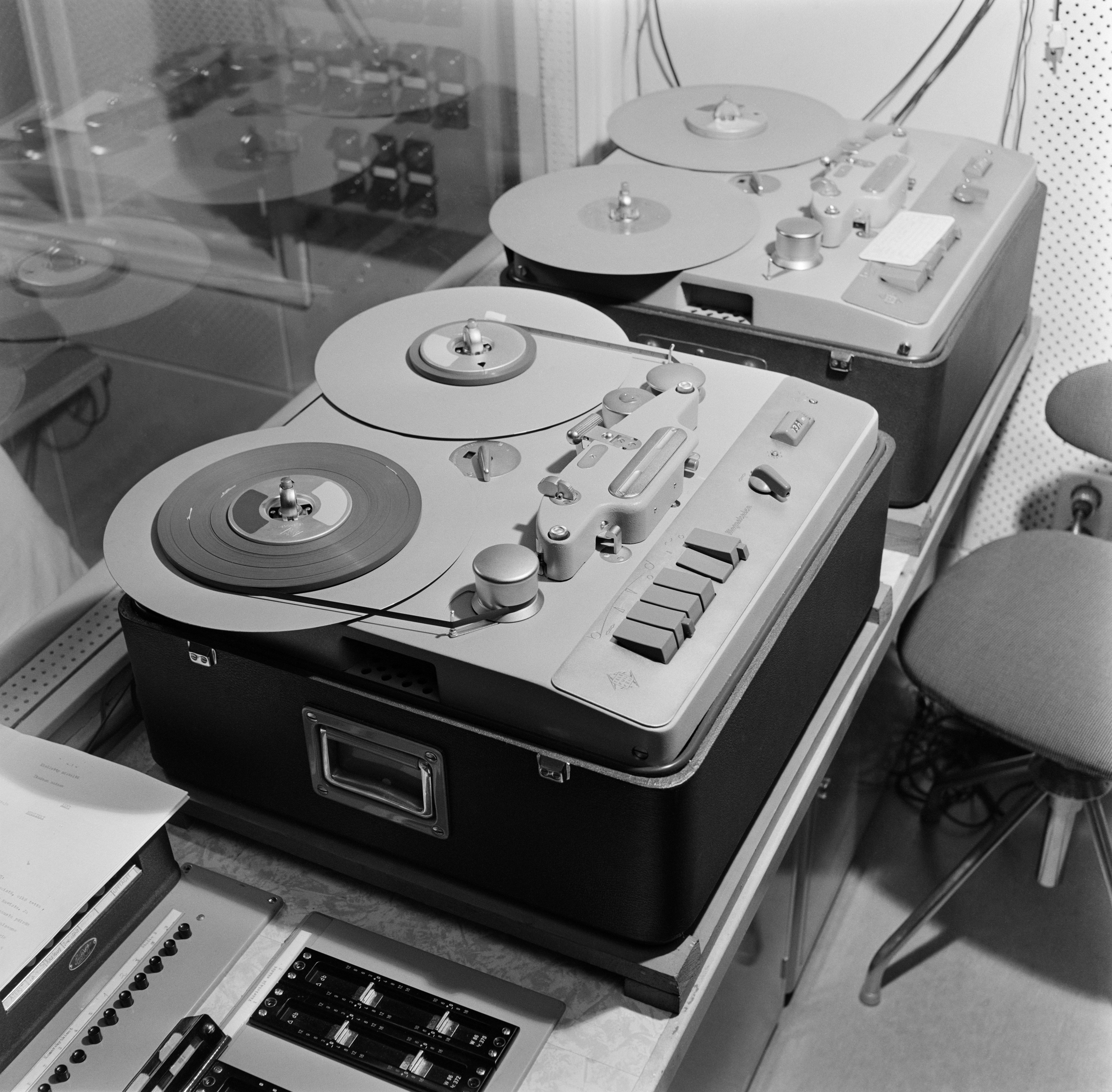 Yleisradion televisiotoiminnan alkuvaiheet. Pasilan alastudion äänitarkkaamossa on kaksi Telefunken-merkkistä magnetofonia (nauhuria). Kelanauhuri. Tiedätkö jotain tästä kuvasta? Jätä kommentti tai ota yhteyttä sähköpostitse: Tutustu Ylen arkistosisältöihin: Fler skatter från Yles arkiv: More about Yle, the Finnish Broadcasting Company